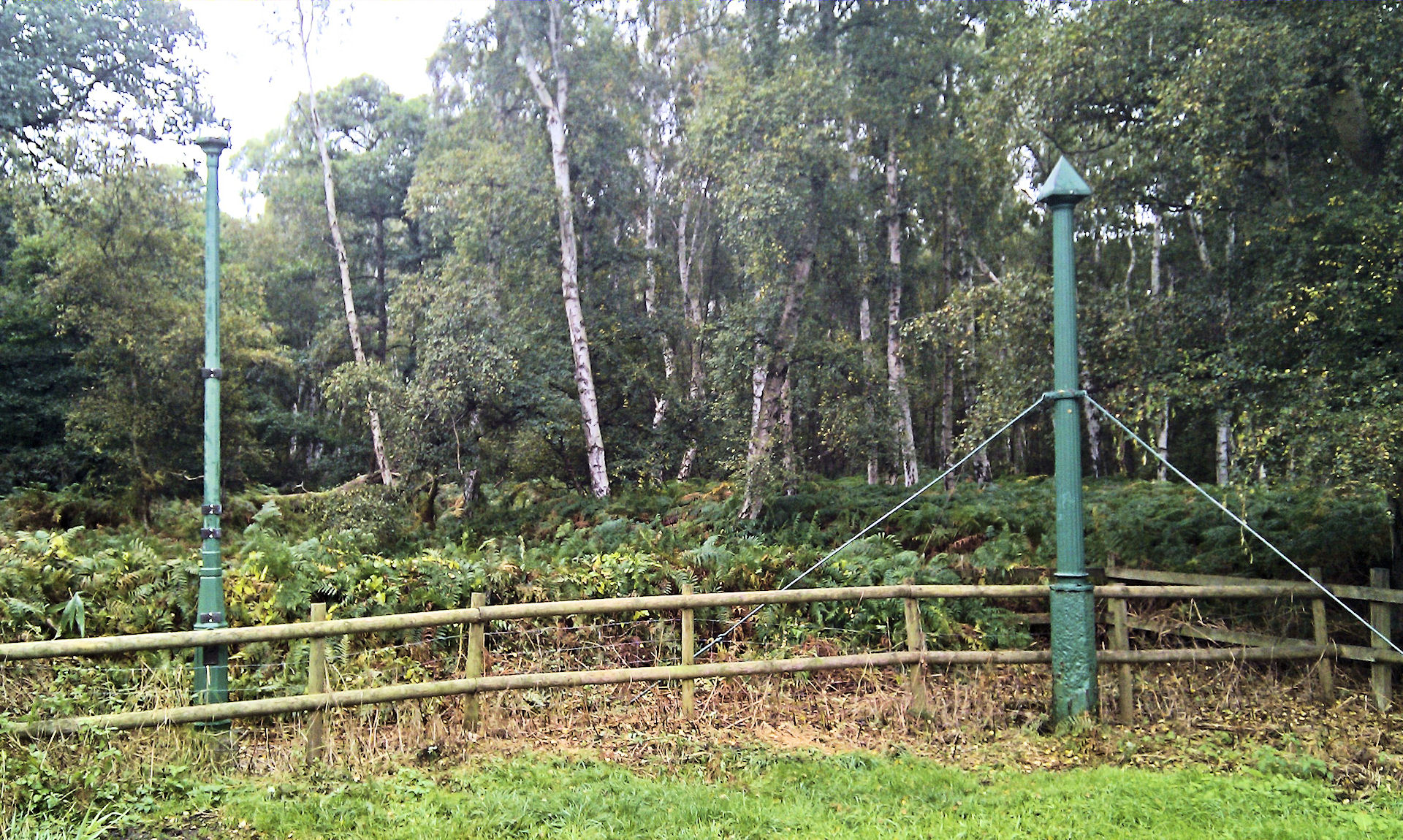 Posts showing ground levels reducing since drainage started in 1850s.